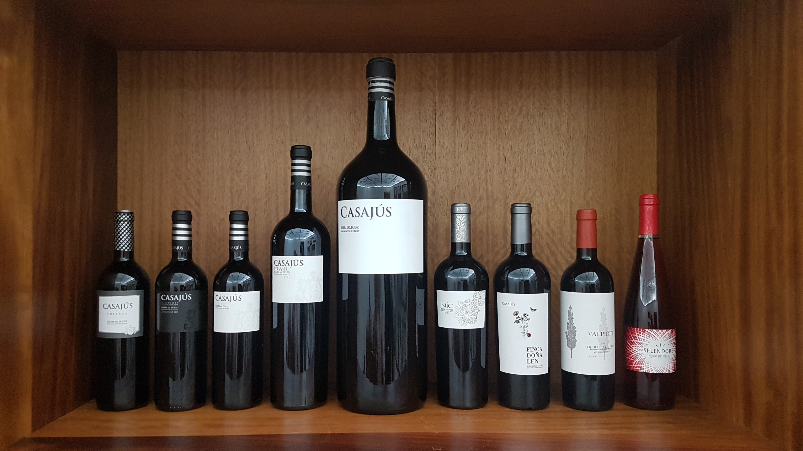 Several traditional wine bottle sizes in Bodegas Casajus in Ribera del Duero, Spain